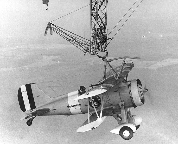 The F9C-2 (BuNo.9057) Sparrowhawk fighter, piloted by Lieutenant D. Ward Harrigan, USN. Shown hanging from the trapeze of the airship USS Macon. Navy photo ID: 80-G-441979